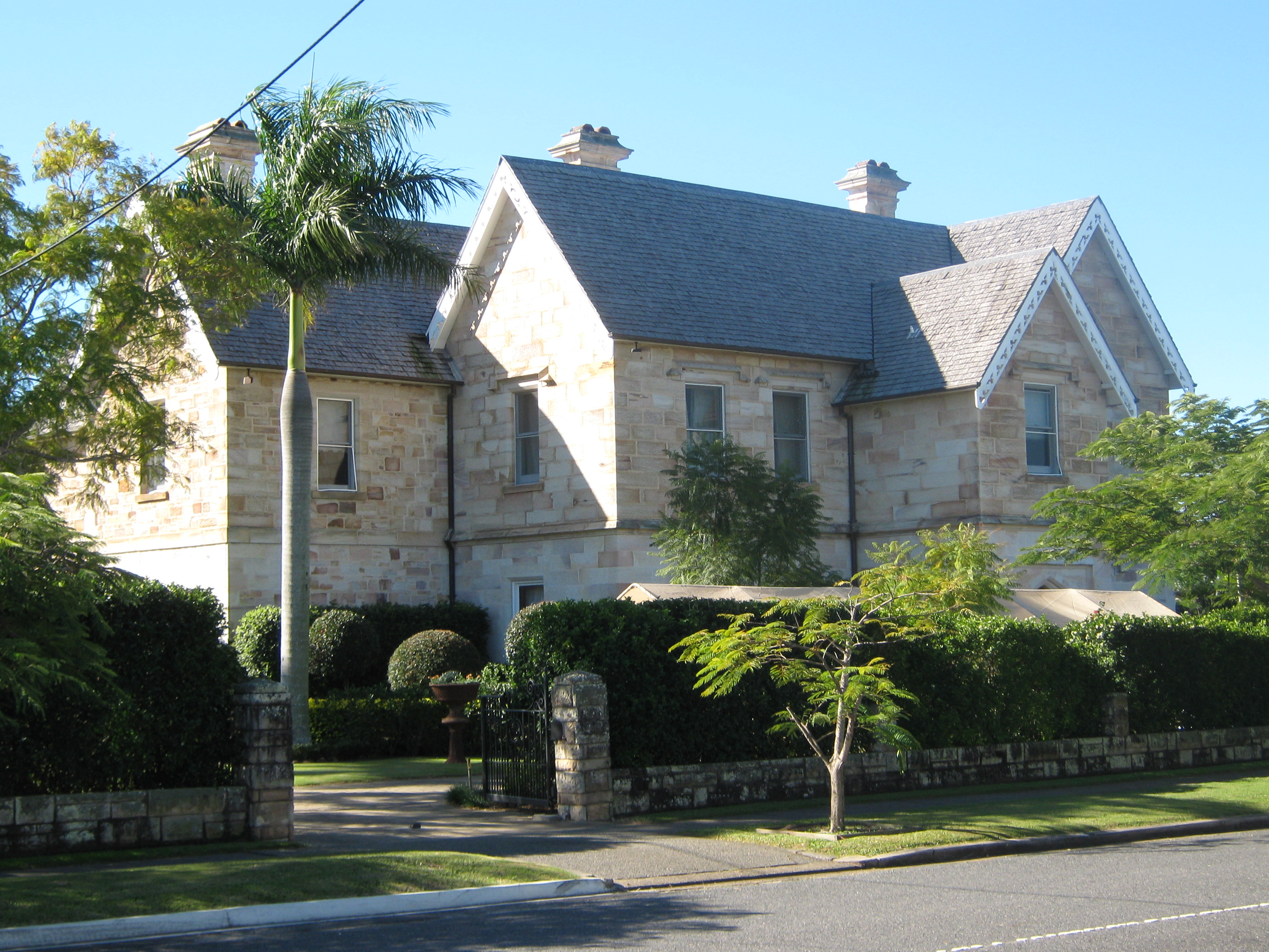 Kedron Lodge, 119 Nelson Street, Kalinga, Brisbane.